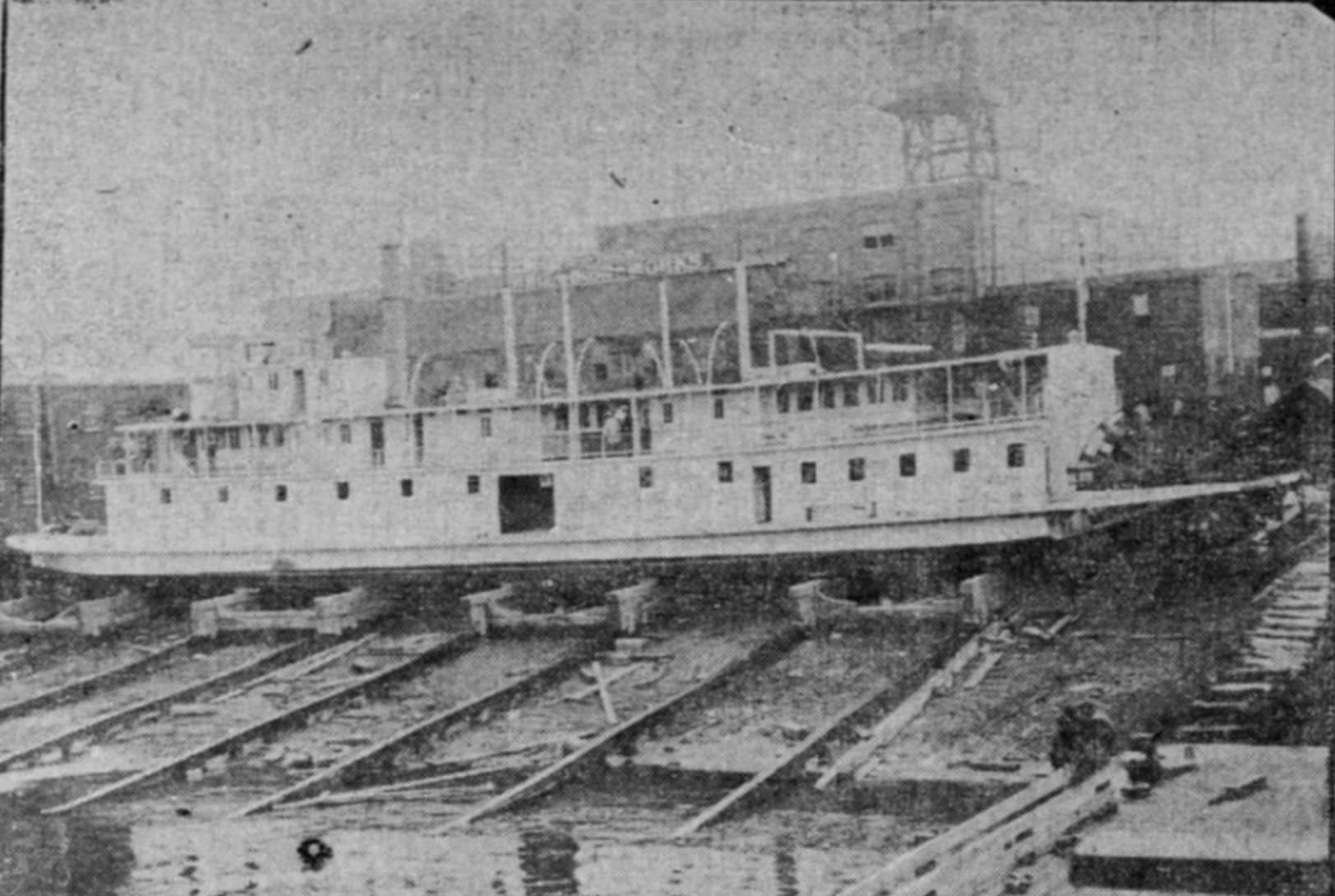 Sternwheeler Grahamona under construction, summer 1912, probably in August, at Joseph Supple shipyard on east bank of Willamette River, in Portland, Oregon.